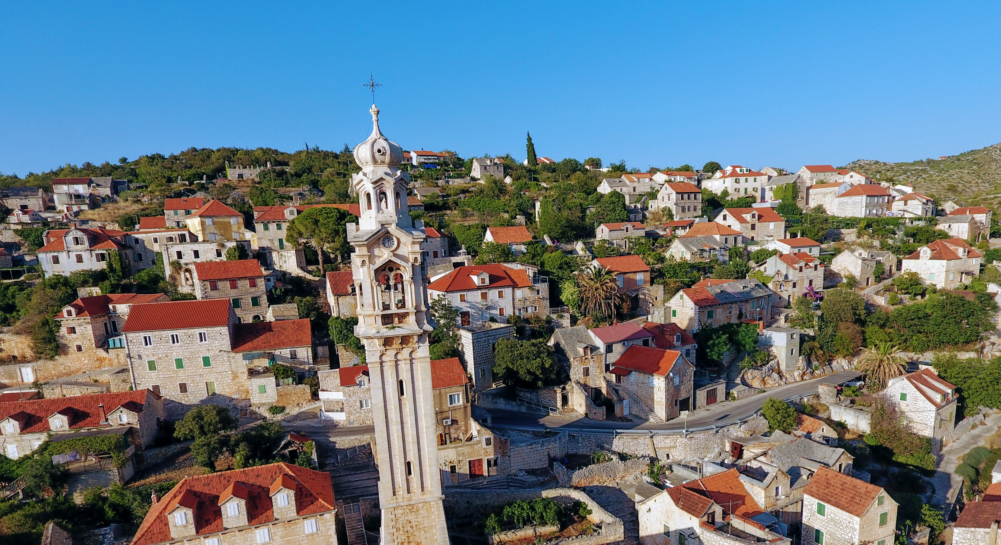 View of Ložišća village, Brač Island, Croatia a july afternoon.